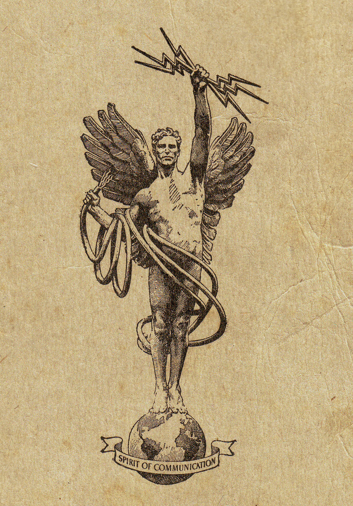 "Spirit of Communication" which in 1914 became the corporate symbol of the American Telegraph & Telephone Company, the former Western Electric Company, and was also featured prominently on the cover of all Bell System telephone directories beginning in the early 1930s through the 1940s as the symbol for the system and its affiliated companies.